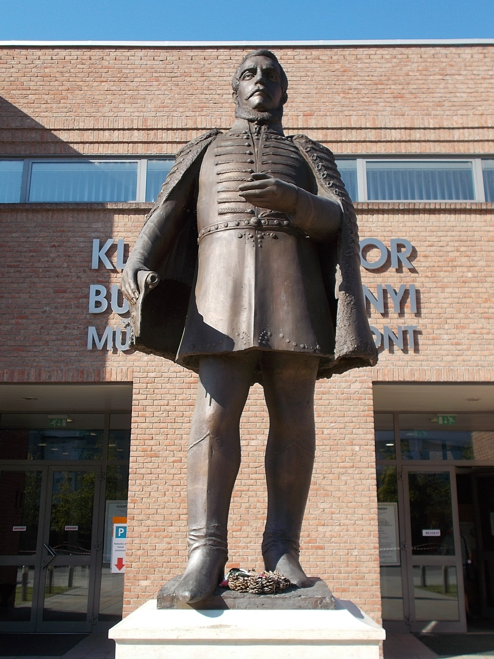 Statue of Gabor Klauzal. - Nagytétényi út, Budapest District XXII., Budapest.